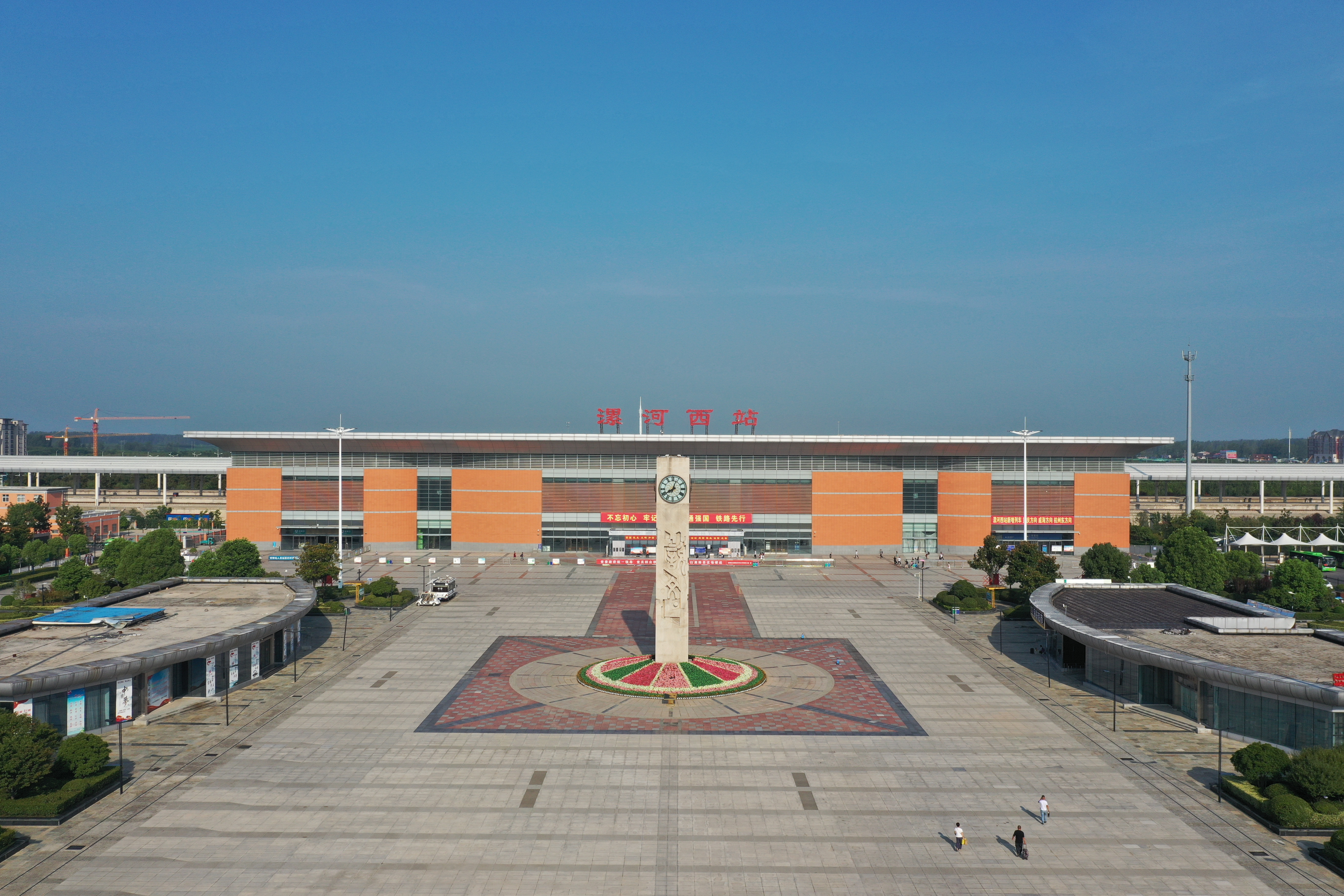 Shooting by DJI Mavic 2 Pro